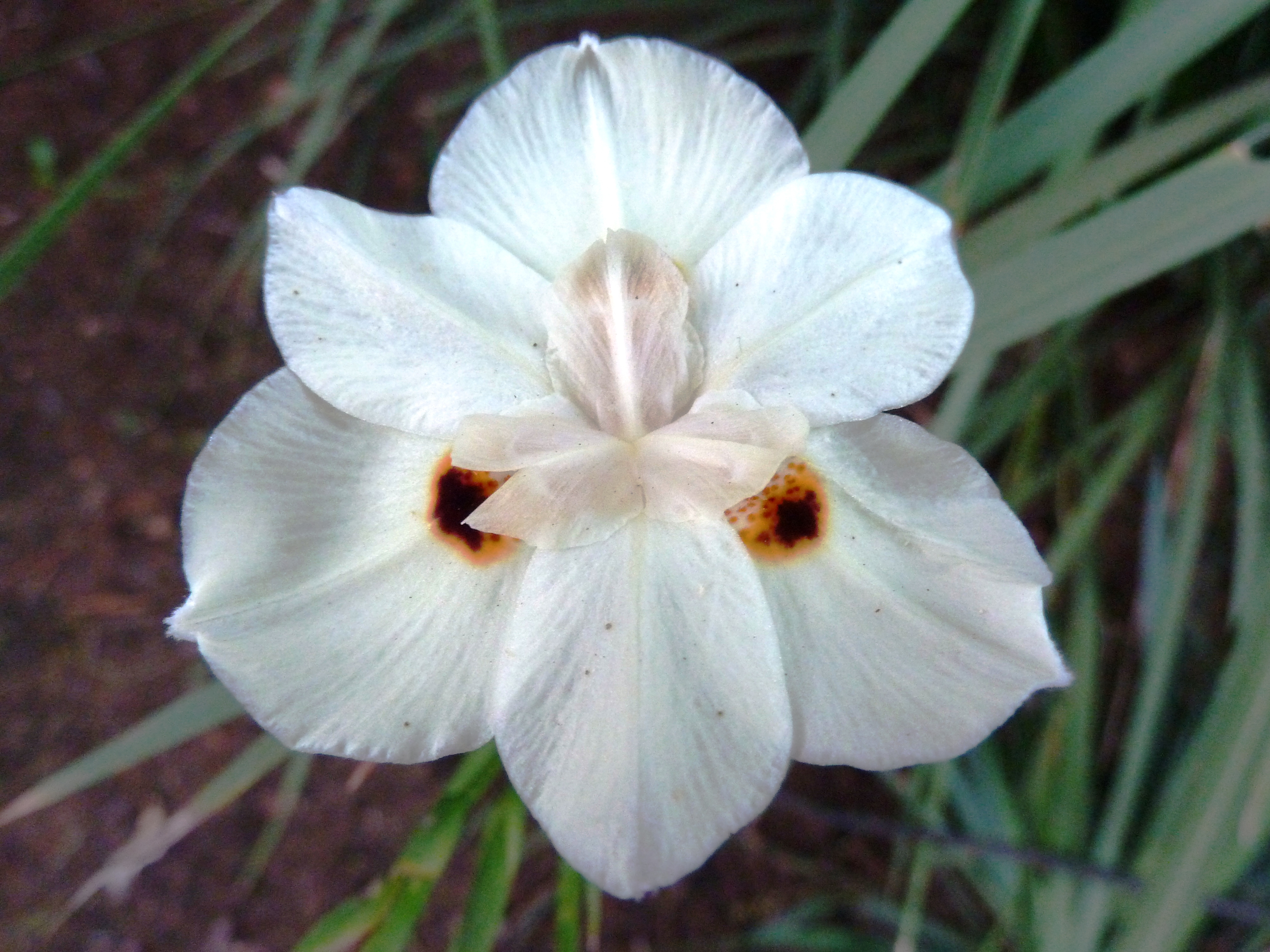 Peacock flower at the TUT campus, Pretoria